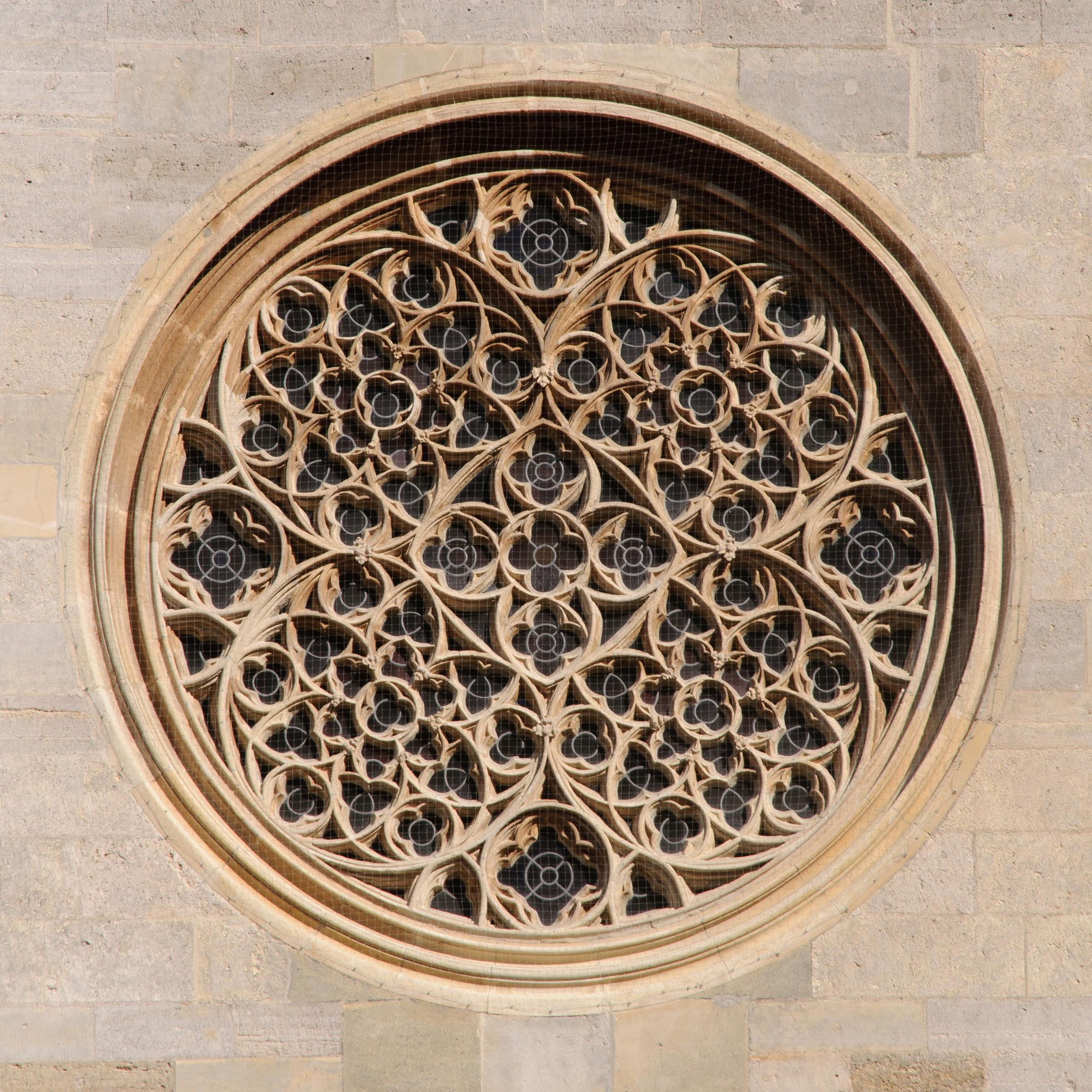 The rose window on the main facade (southern part) of St. Stephen's Cathedral, Vienna.